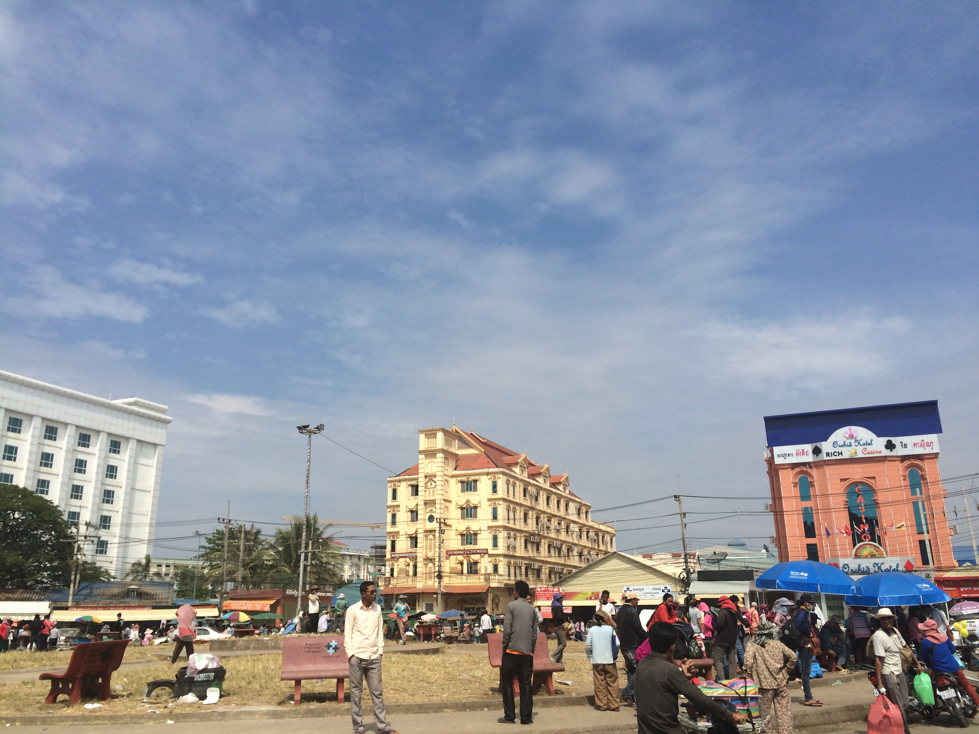 bright day